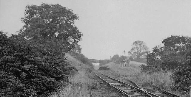 Balmore Station (site) View eastwards (towards Kilsyth) to what little remained of the station: Maryhill to Kilsyth line, closed to passengers 2/4/51, to Goods 31/7/61 - shortly before this photograph was taken.